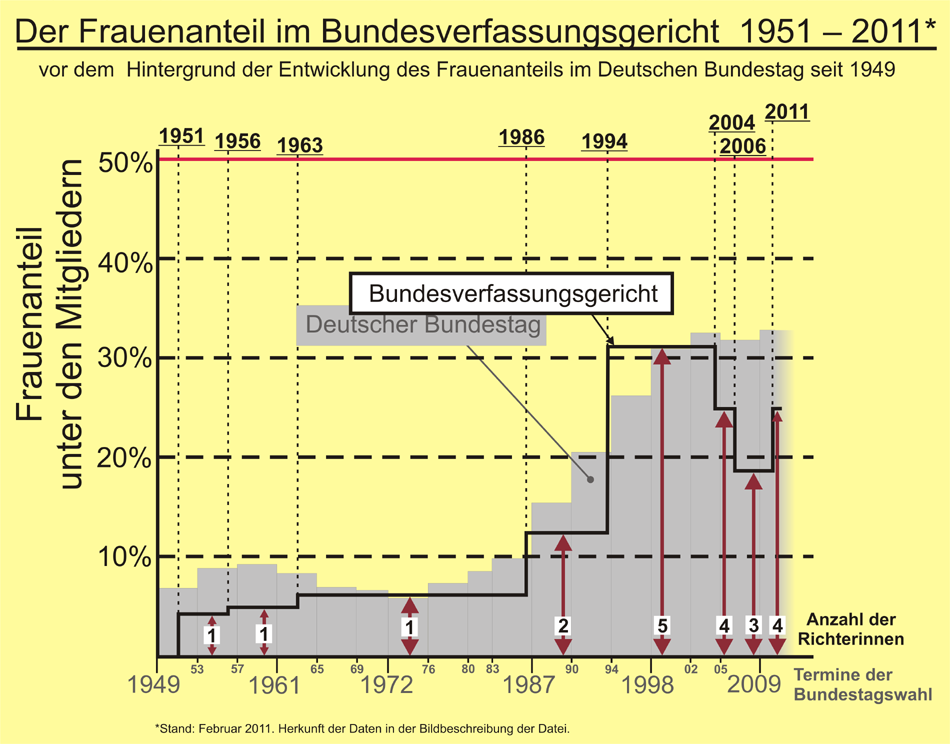 Proportion of seats held by women in the Federal Constitutional Court of Germany (Bundesverfassungsgericht) from its foundation in 1951 to February 2011 against the backdrop of the proportion of seats held by women in the German Bundestag (Parliament of the Federal Republic of Germany) since 1949